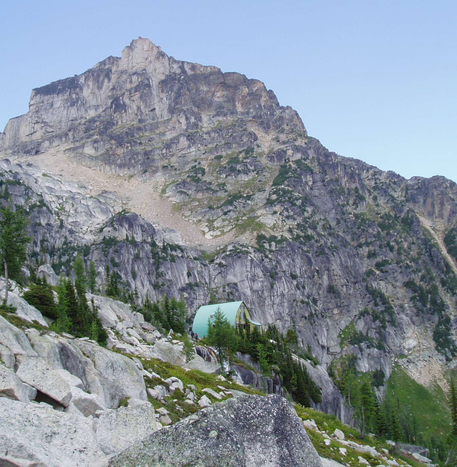 Conrad Kain hut, Bugaboo Provincial Park, British Columbia, Canada